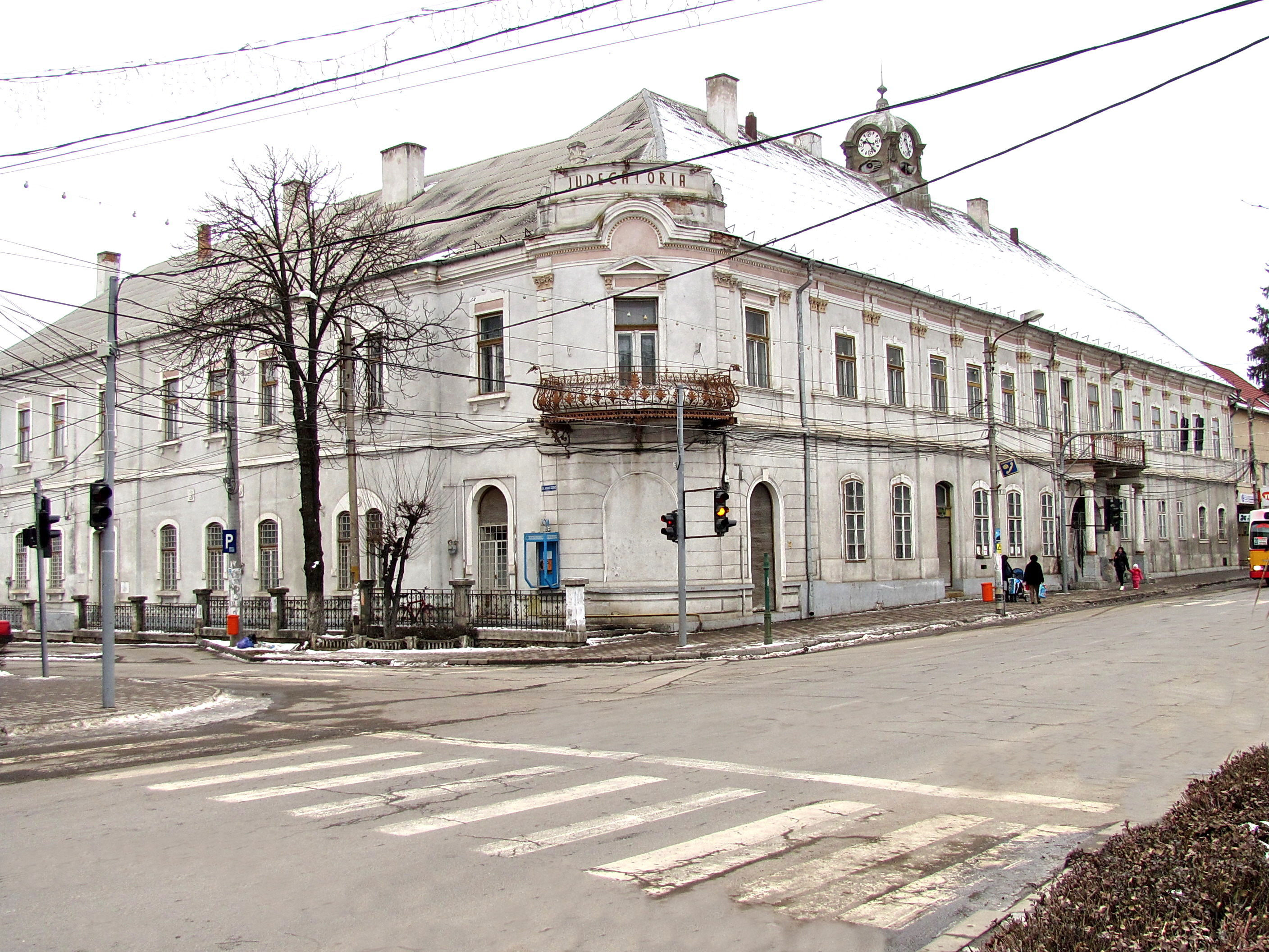 Former courthouse (5 Republic Square)